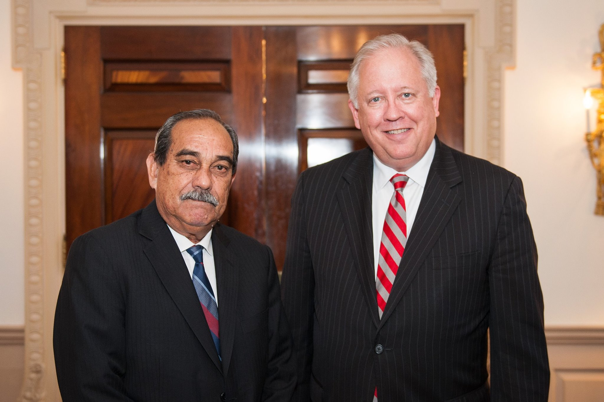 During his visit to Washington, D.C., President Peter M. Christian of the Federated States of Micronesia meets with Under Secretary of State for Political Affairs Thomas A. Shannon Jr. They discussed a range of issues including drought relief, the Paris Agreement and the Compact of Free Association.